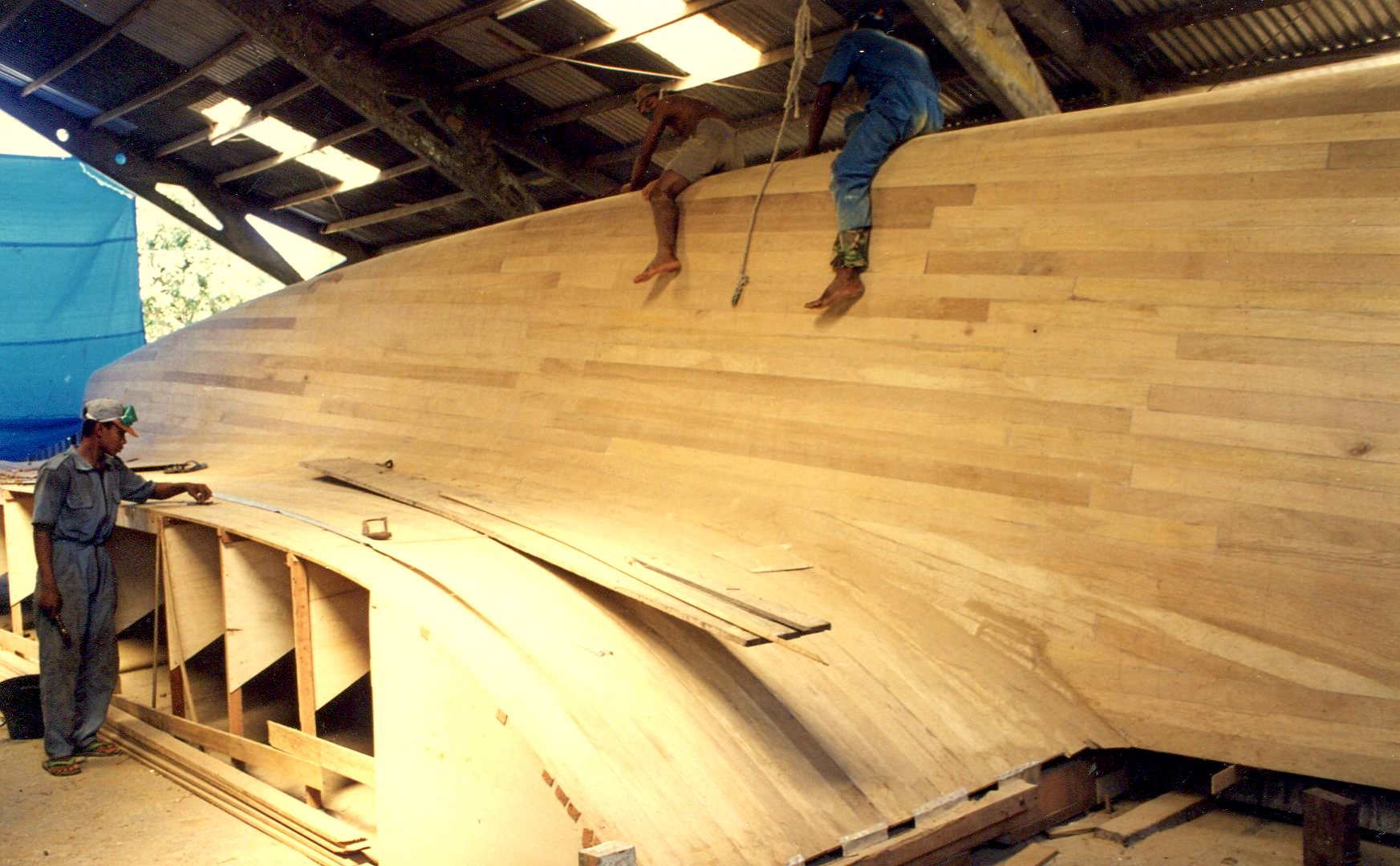 Brady 45' strip-built catamaran under construction in Bali, using Indonesian hardwood, prior to epoxy coating.